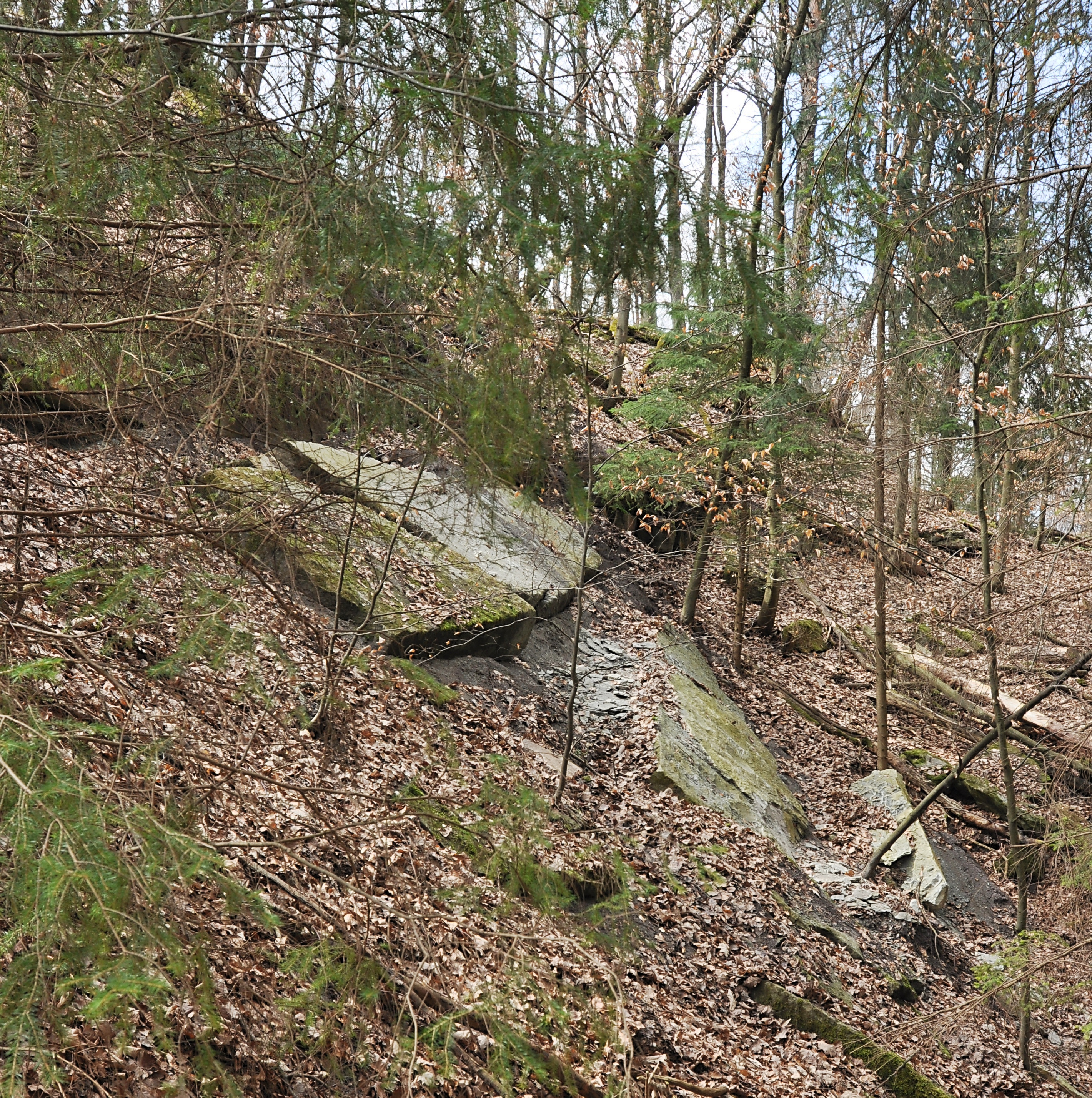 Blocks of sandstone in the Weißer Steinbruch (White Stonepit) near Pfaffenhofen in Württemberg